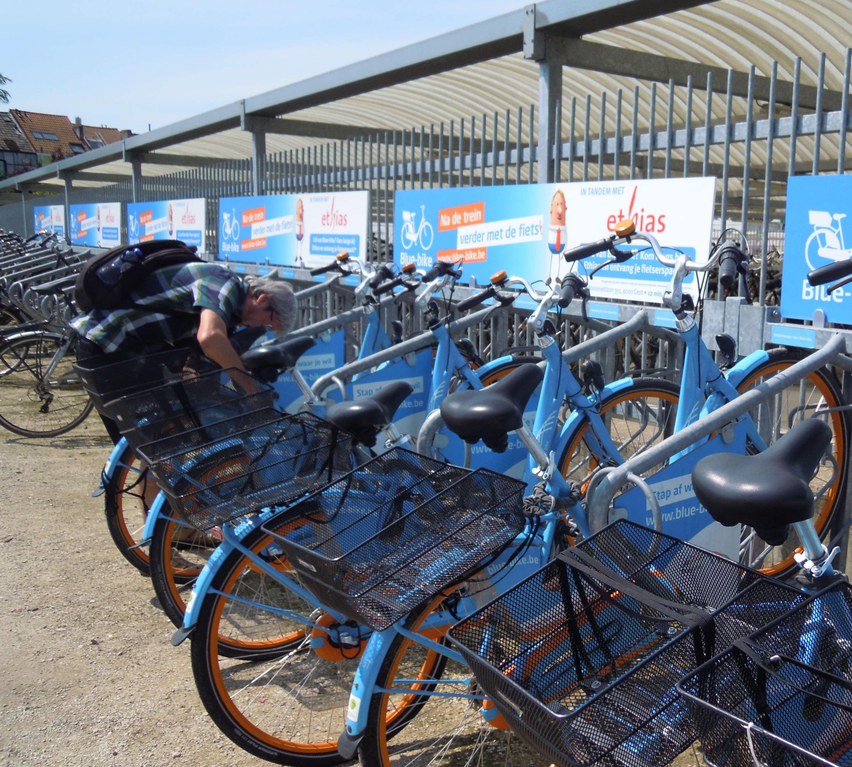 Blue bike stand in Ghent